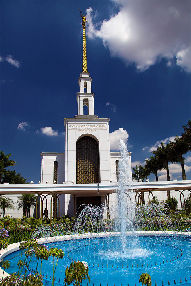 The São Paulo Brazil Temple of The Church of Jesus Christ of Latter-day Saints (Mormon)